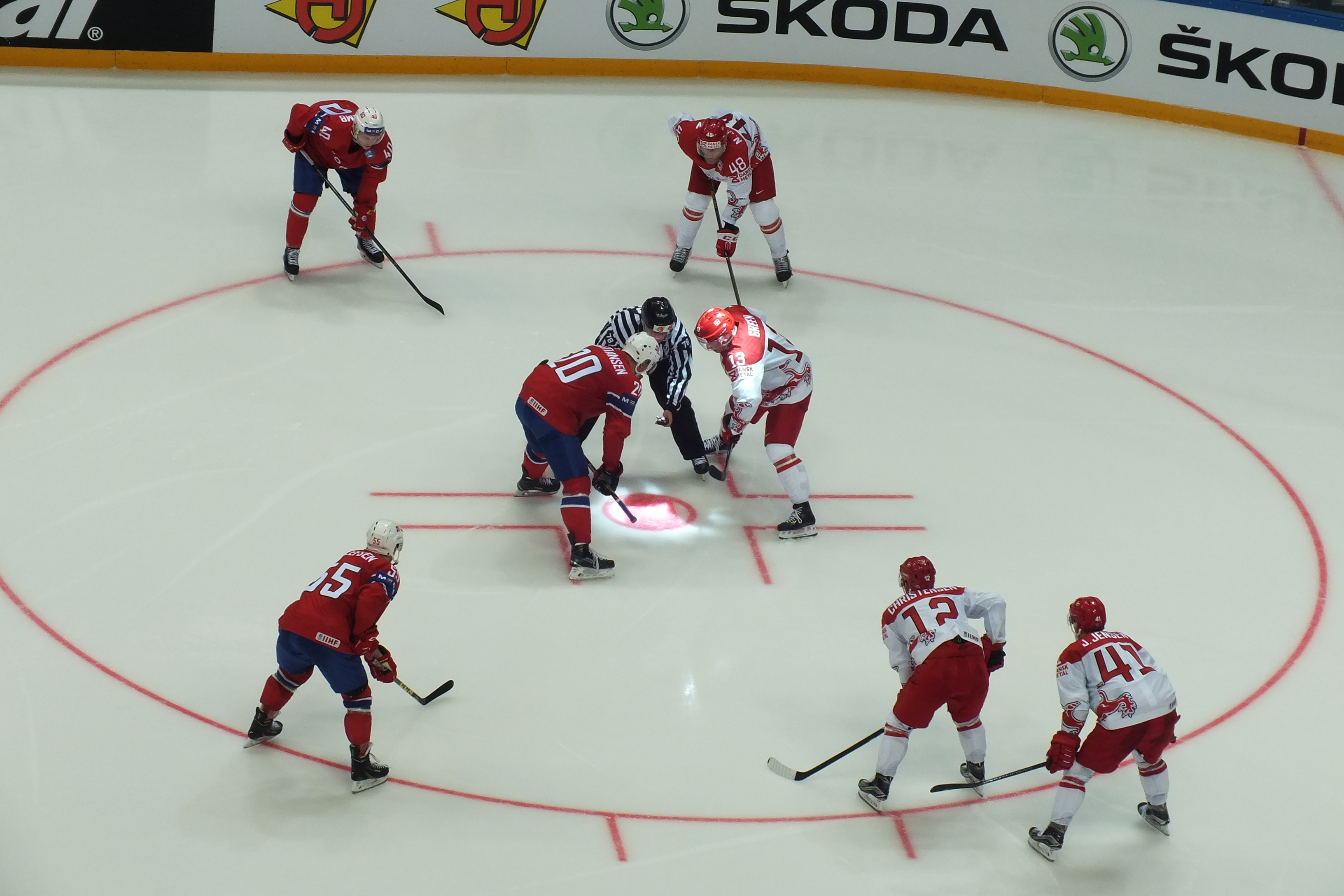 2016 IIHF World Championship - Norway vs. Denmark (07.05.16).